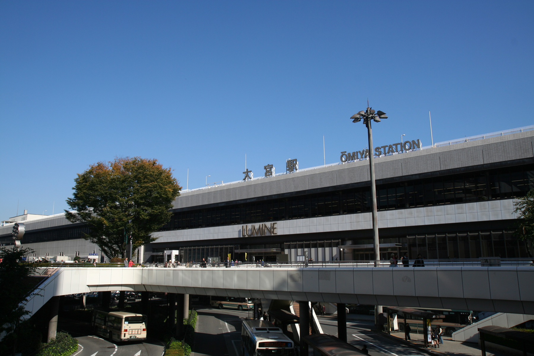 The west side of Omiya Station in Saitama Prefecture, Japan